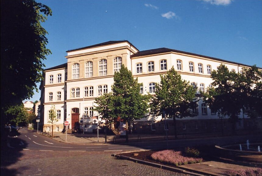 This image shows the secondary school "Johann Wolfgang von Goethe" in Pirna.